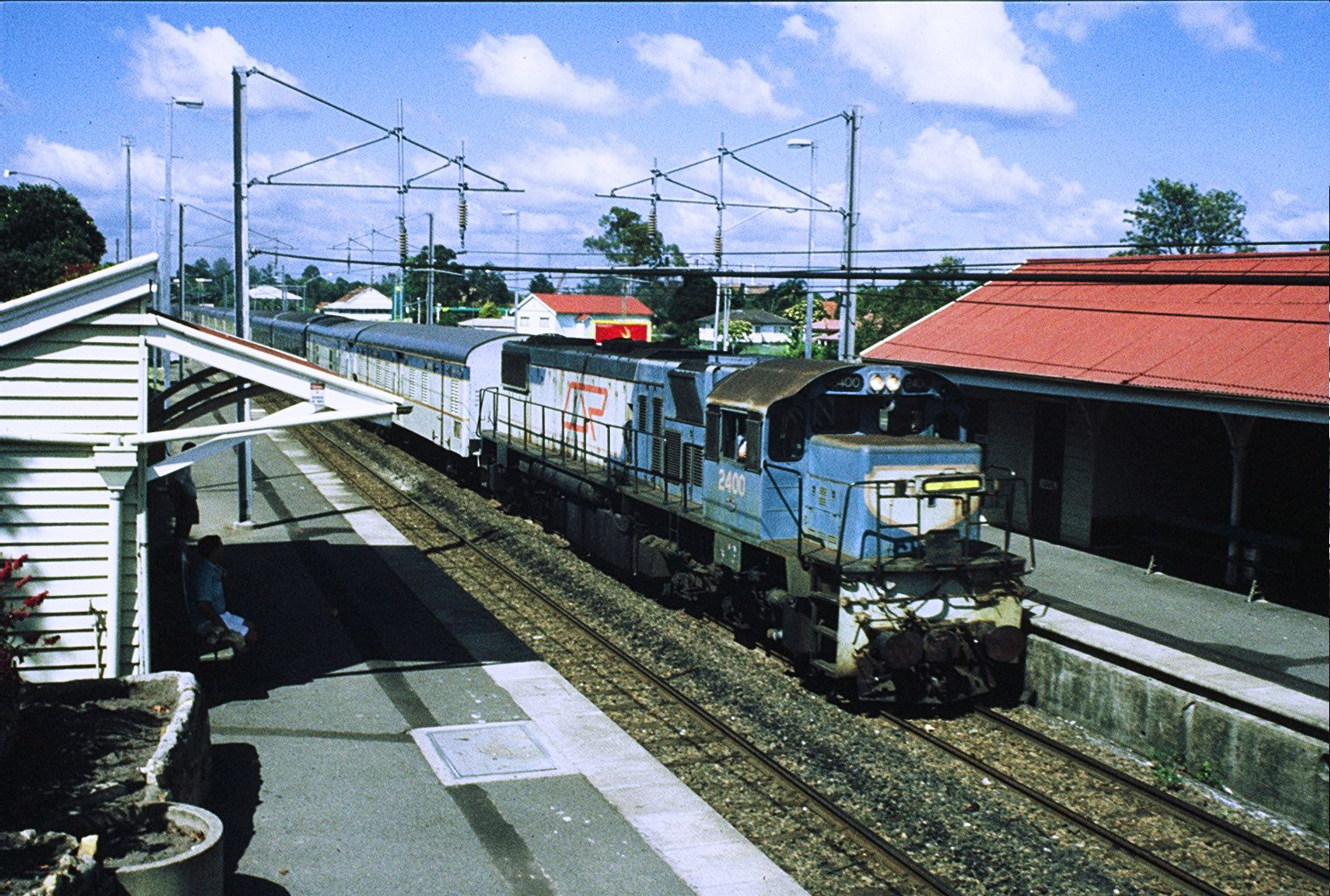 QR loco 2400 hauls an empty Sunlander consist through Yeronga station (in order to turn the train), 1987